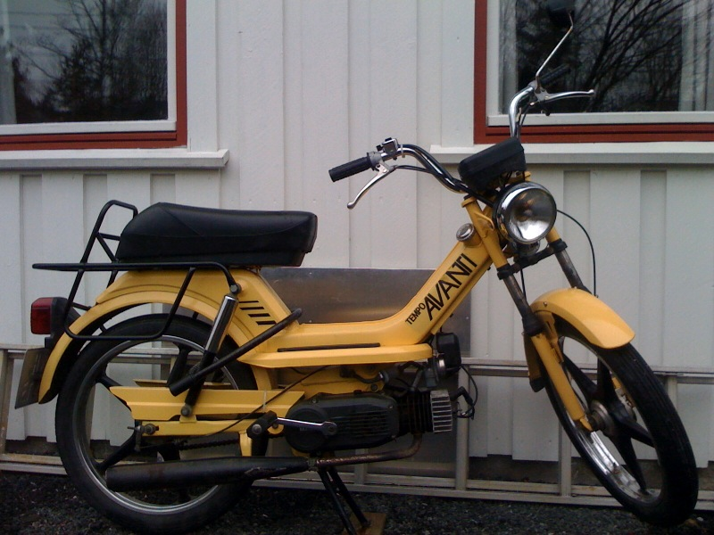 Full-profile picture of Tempo Avanti 030 1987 mod. Non-original licence plate bracket.